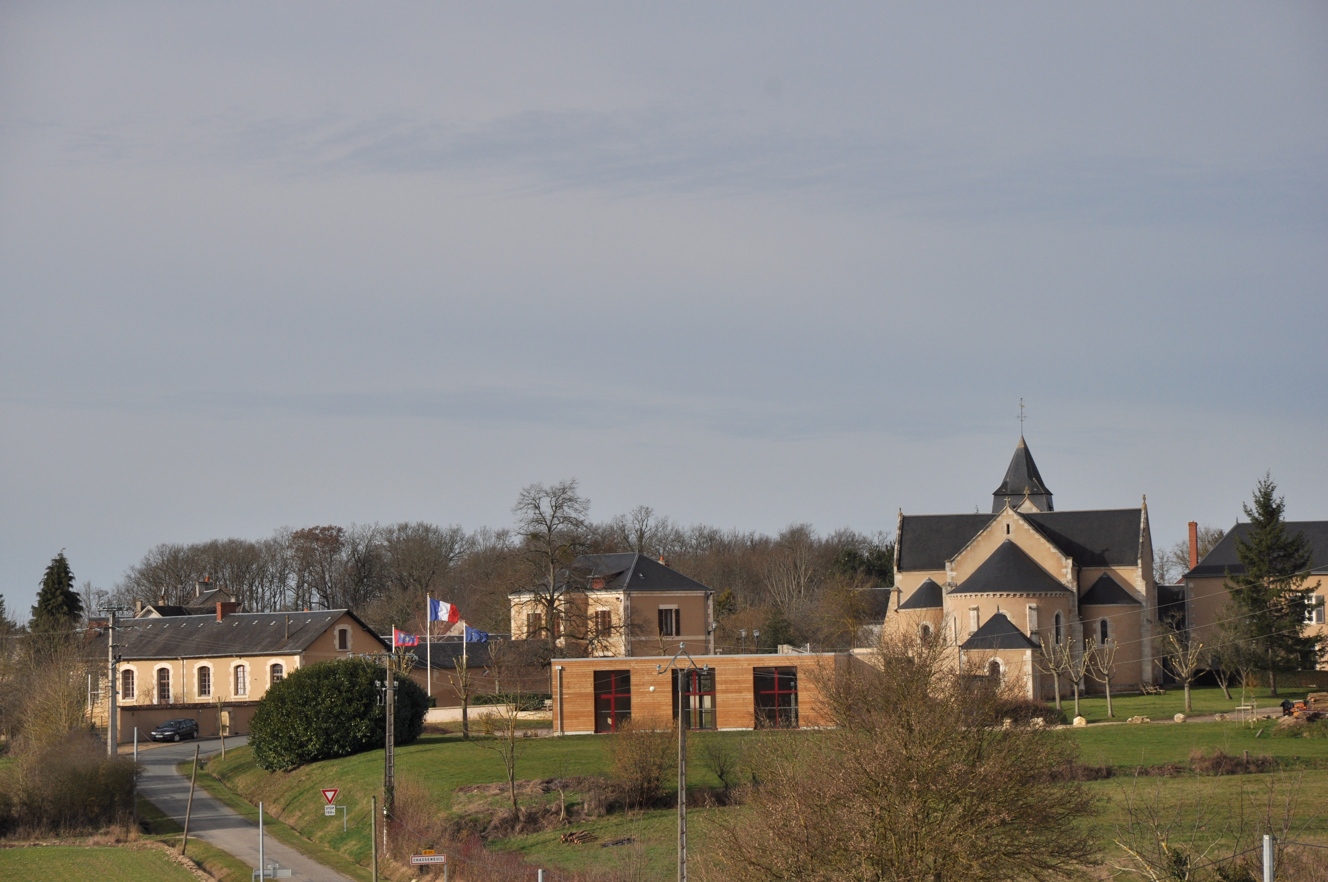 Chasseneuil en Berry (Indre)- France - Vue générale